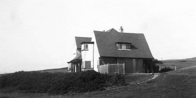 J. Vincent's patrician villa dating back to 1910 at Heather Hill near Raageleje, Denmark. Photo from approx. 1955, the villa is due and shuttered. The building was demolished around. 1960. (Photo taken by my parents)